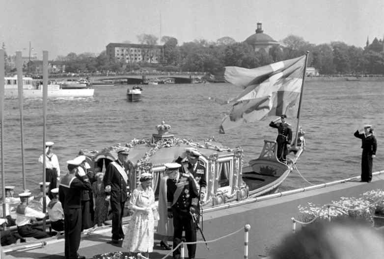 Elisabeth II and Prince Philip arrive in Stockholm in 1956.